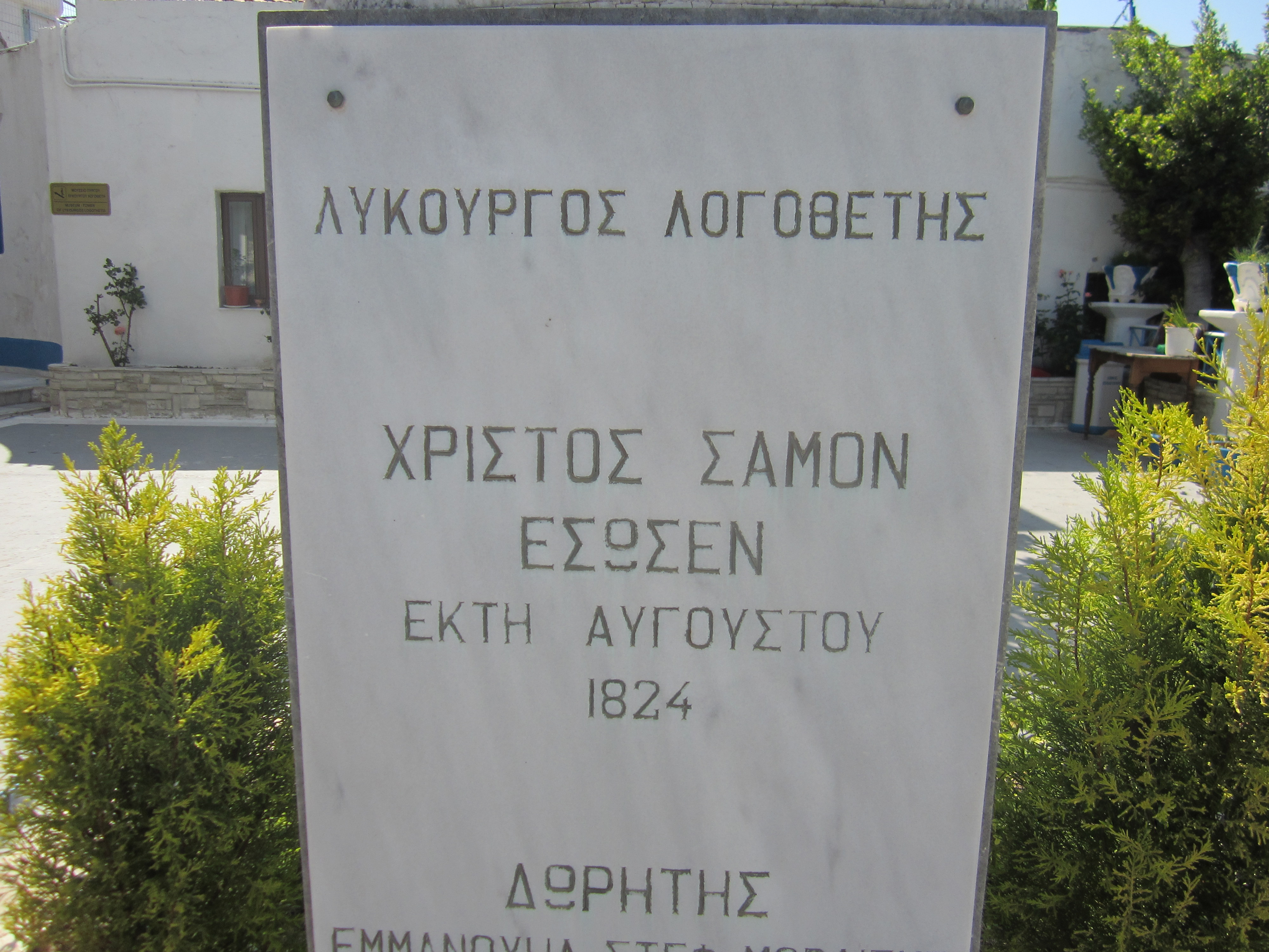 "Chris Samos saved" 06 August 1824. Engraved on the pedestal of monument to Lykurgos Logothetis, Pythagorion, Samos, Greece